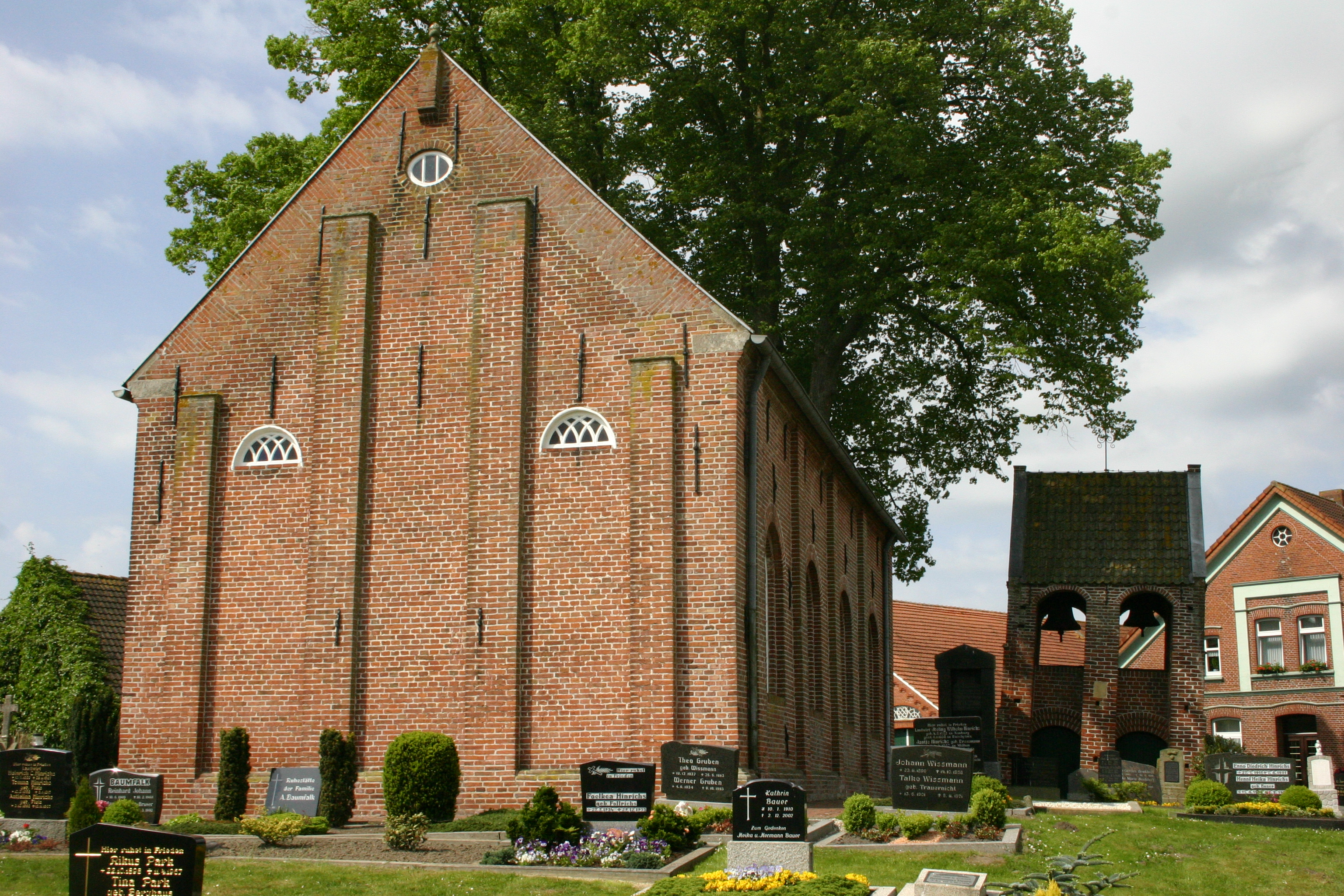 Historic church in Neuburg, district of Leer, East Frisia, Germany